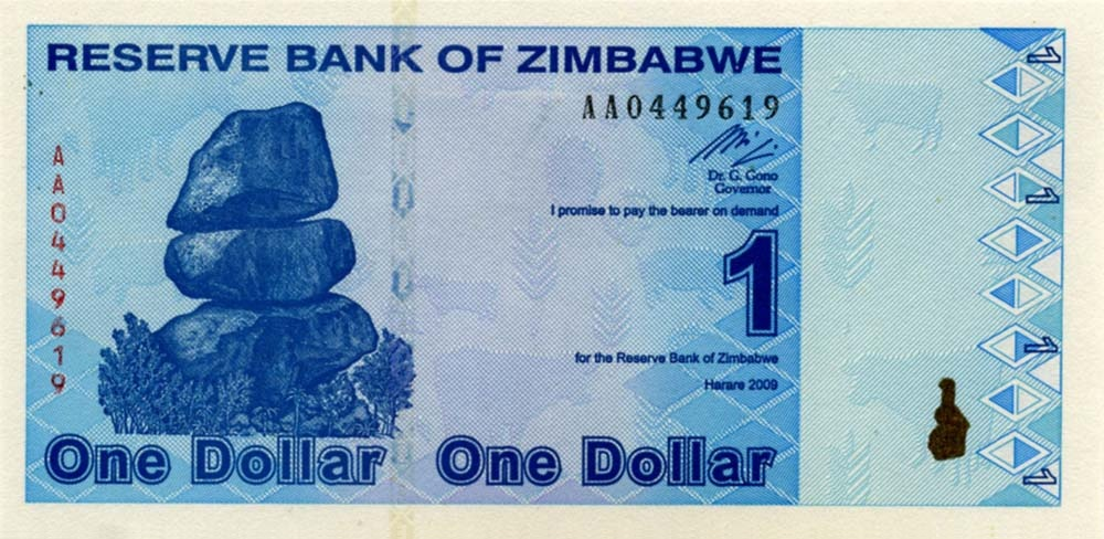 $1 Zimbabwe 2009 Obverse